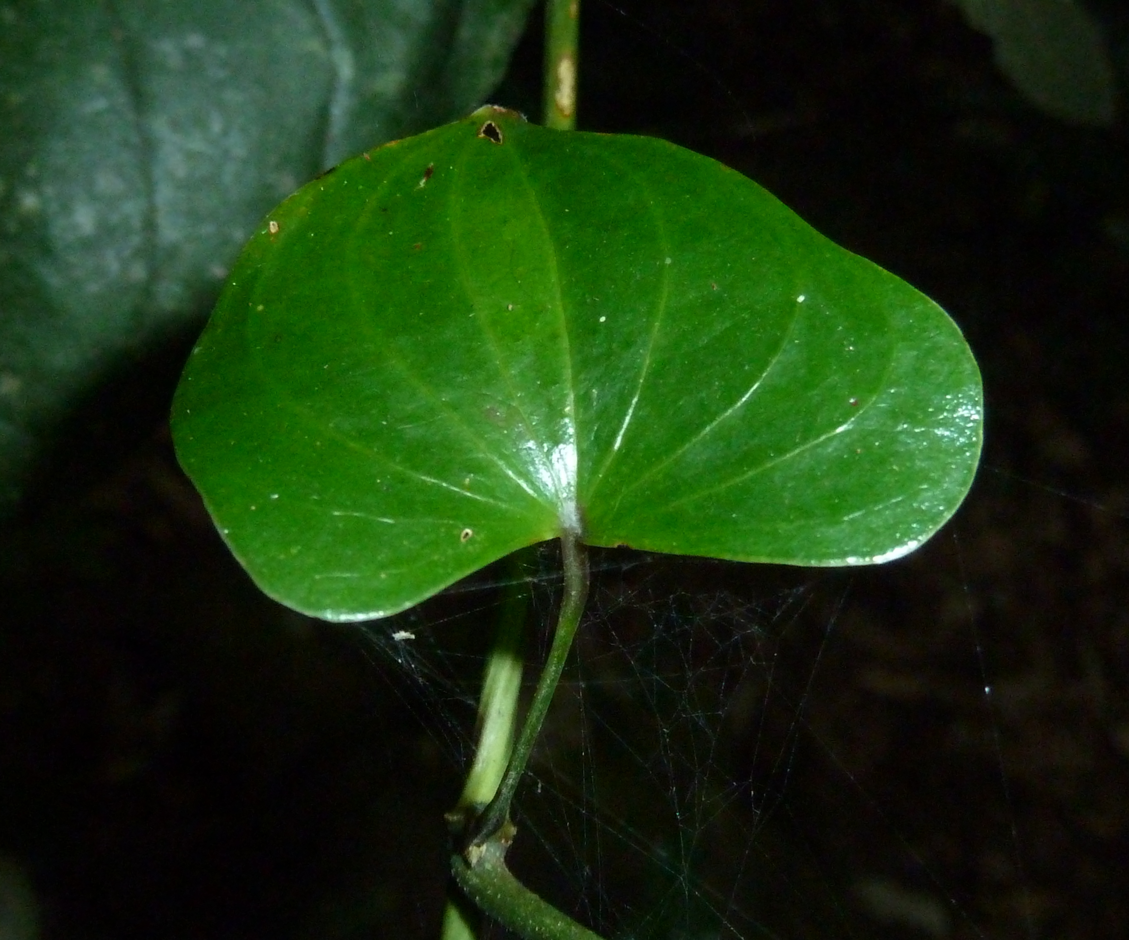 Leaf of a Wild yam in Krantzkloof Nature Reserve, KwaZulu-Natal